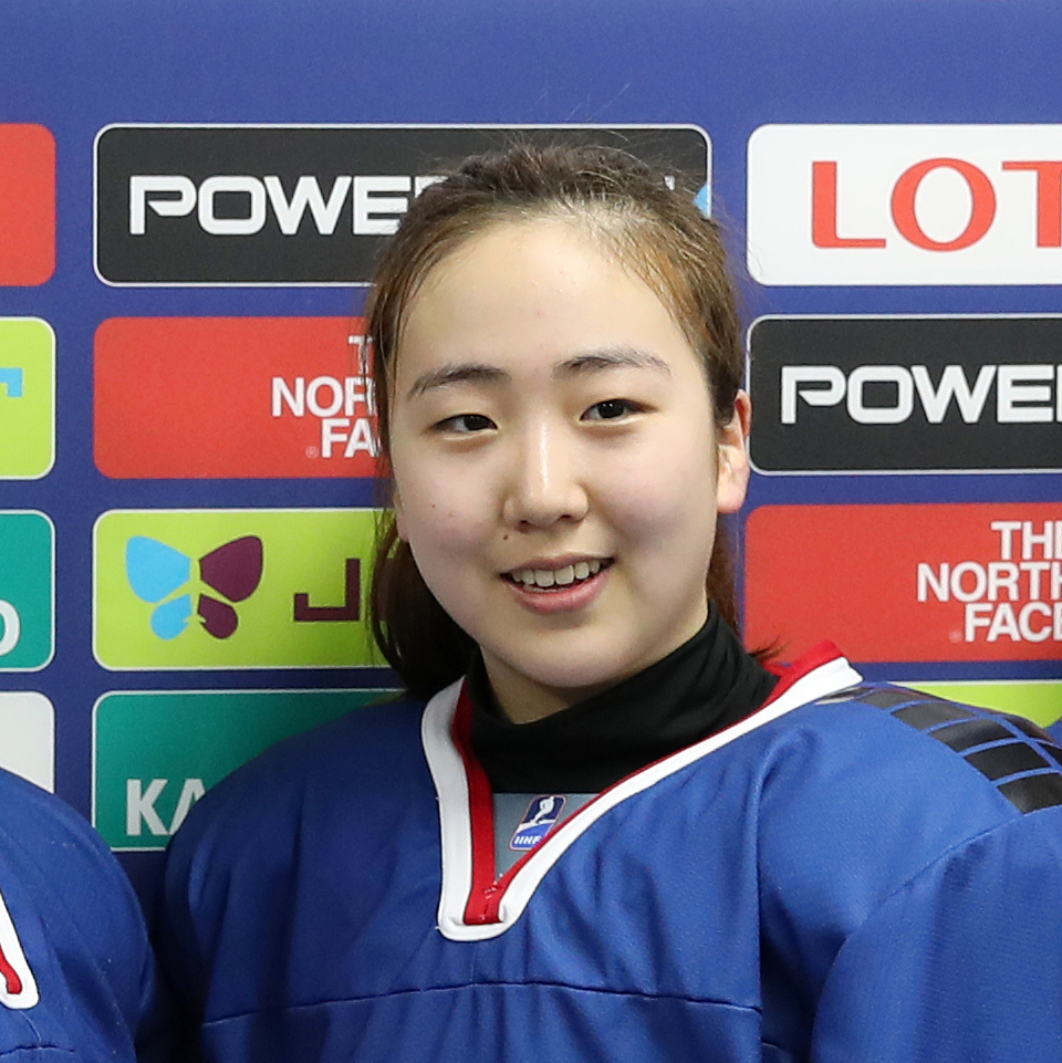 Members of the South Korean women's hockey team posing before their game against Australia. From left: Eom Su-yeon, Park Jong-ah, Han Soo-jin, Choi Yu-jung, Park Ye-eun, Lee Eun-ji IIHF Ice Hockey Women’s World Championship DIVⅡ Group A Korea vs Australia April 5, 2017 Kwandong Hockey Center, Gangneung-si, Gangwon-do Ministry of Culture, Sports and Tourism Korean Culture and Information Service ( Official Photographer : Jeon Han This official Republic of Korea photograph is being made available only for publication by news organizations and/or for personal printing by the subject(s) of the photograph. The photograph may not be manipulated in any way. Also, it may not be used in any type of commercial, advertisement, product or promotion that in any way suggests approval or endorsement from the government of the Republic of Korea.---------------------------------------------------- 2017 IIHF(국제아이스하키연맹) 아이스하키 여자 세계선수권대회 디비전Ⅱ 그룹 A한국 대 호주2017-04-05관동하키센터문화체육관광부해외문화홍보원코리아넷전한